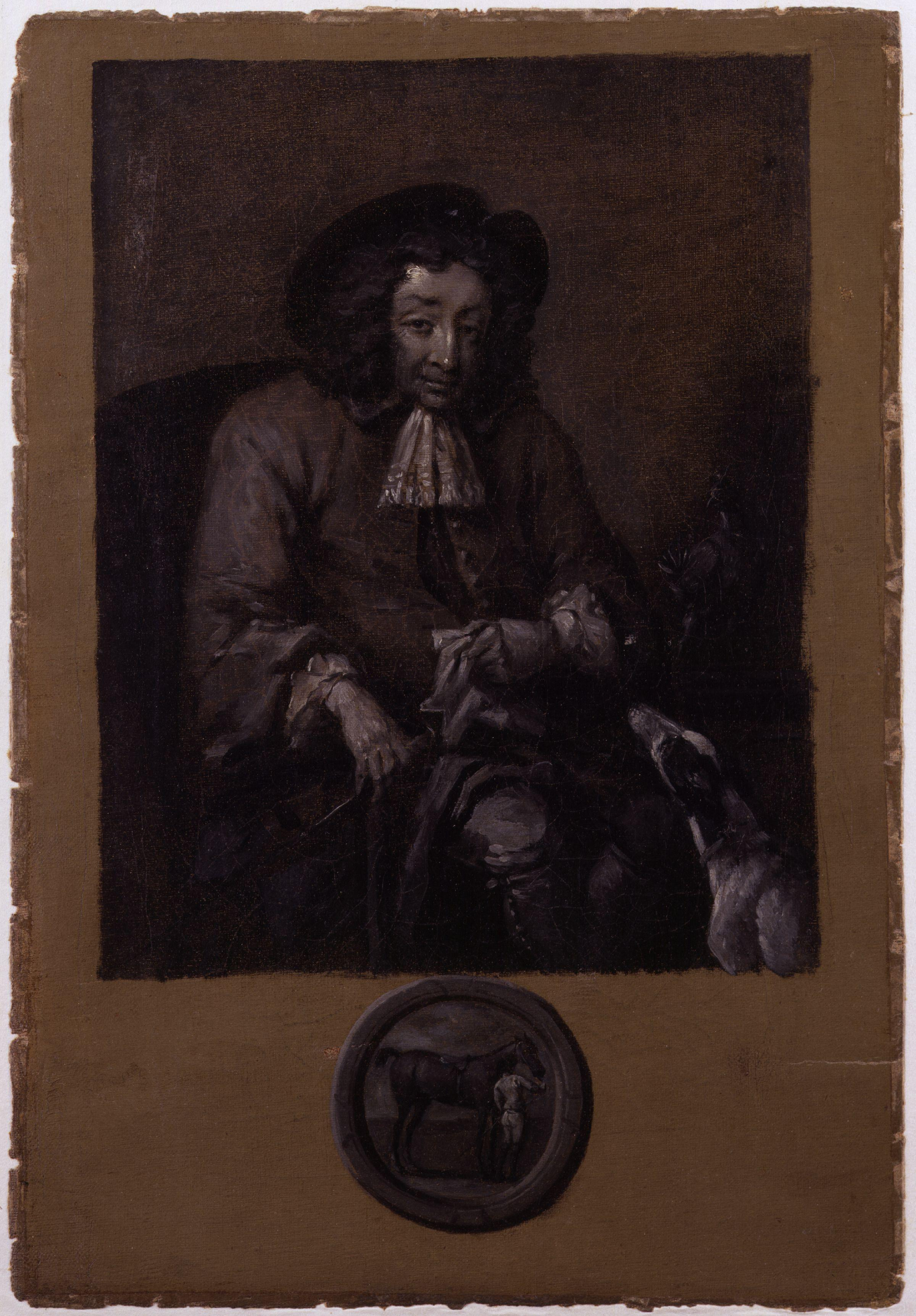 Tregonwell Frampton, by John Wootton (died 1769). All images in this batch have been confirmed as author died before 1939 according to the official death date listed by the NPG.